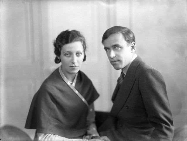 Amy Johnson and James Allan Mollison